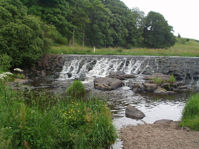 White Cart Water, Waterfoot.